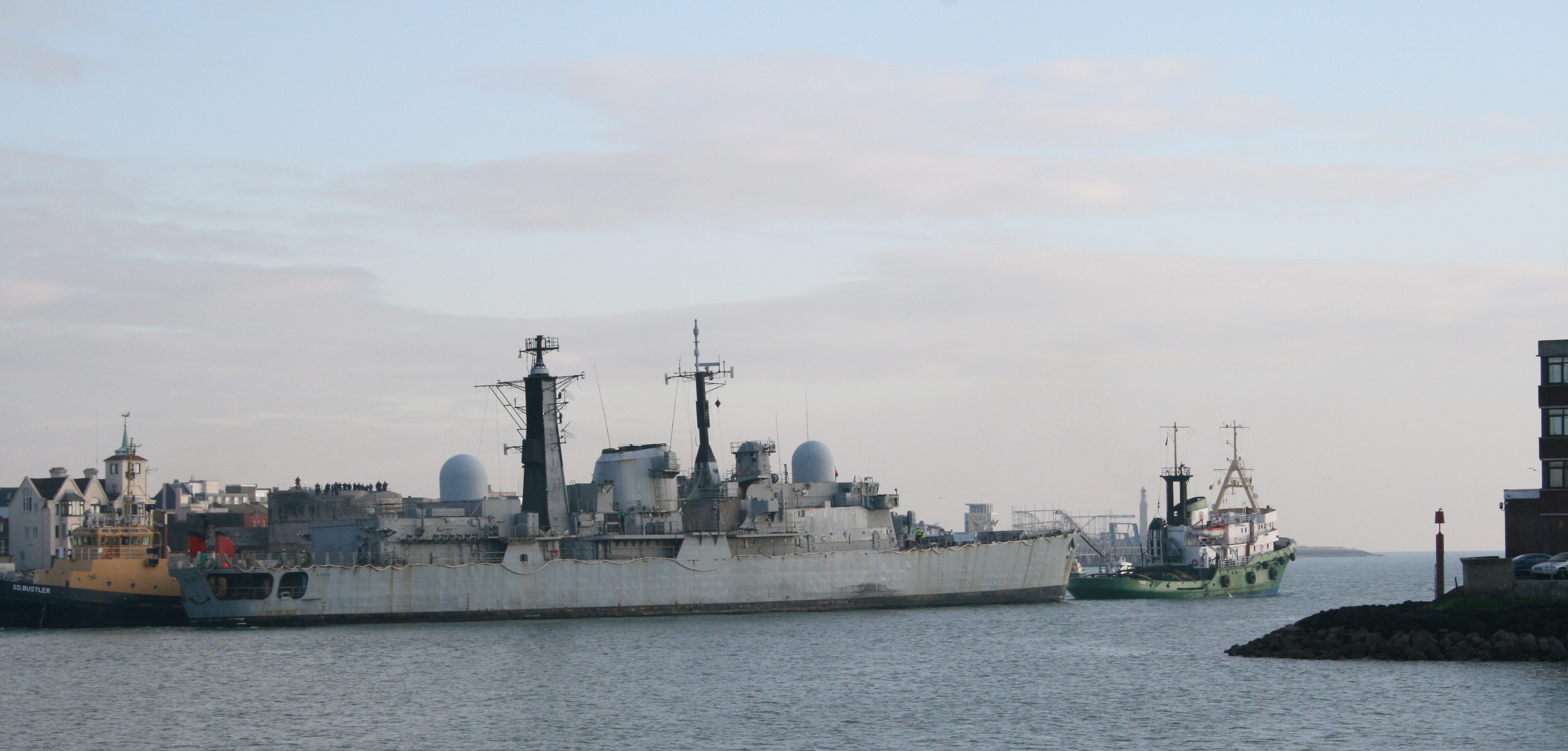 HMS Glasgow (D88) leaving HMNB Portsmouth on tow to the breakers, on the 7th of January 2009.